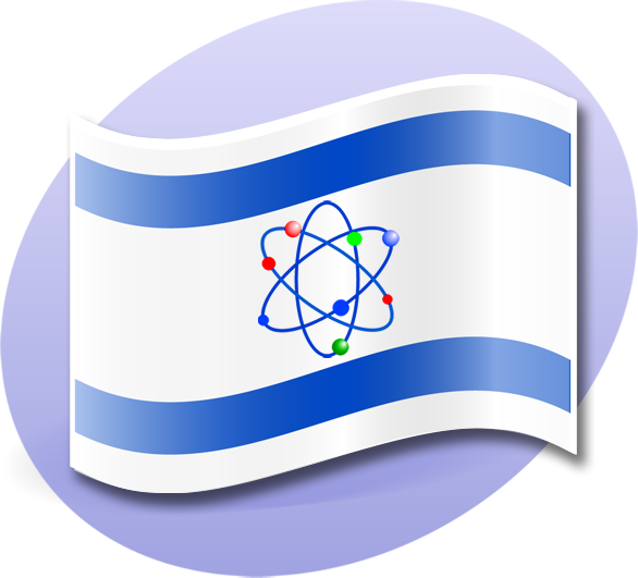 Based on file:P Israel Flag.svg and File:Science-symbol-2.svg